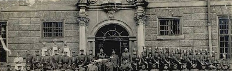 The fate of many secularised German abbeys in the early 19th century was to be transformed into barracks or -- with windows fitted with iron bars -- prisons and penitentiaries, such as in the case of the former Imperial Abbey of Kaisersheim (Kaisheim). Cropped from a postcard issued c. 1905.